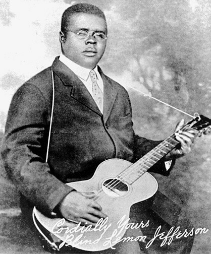 Blind Lemon Jefferson, publicity photograph taken between 1926 and 1929